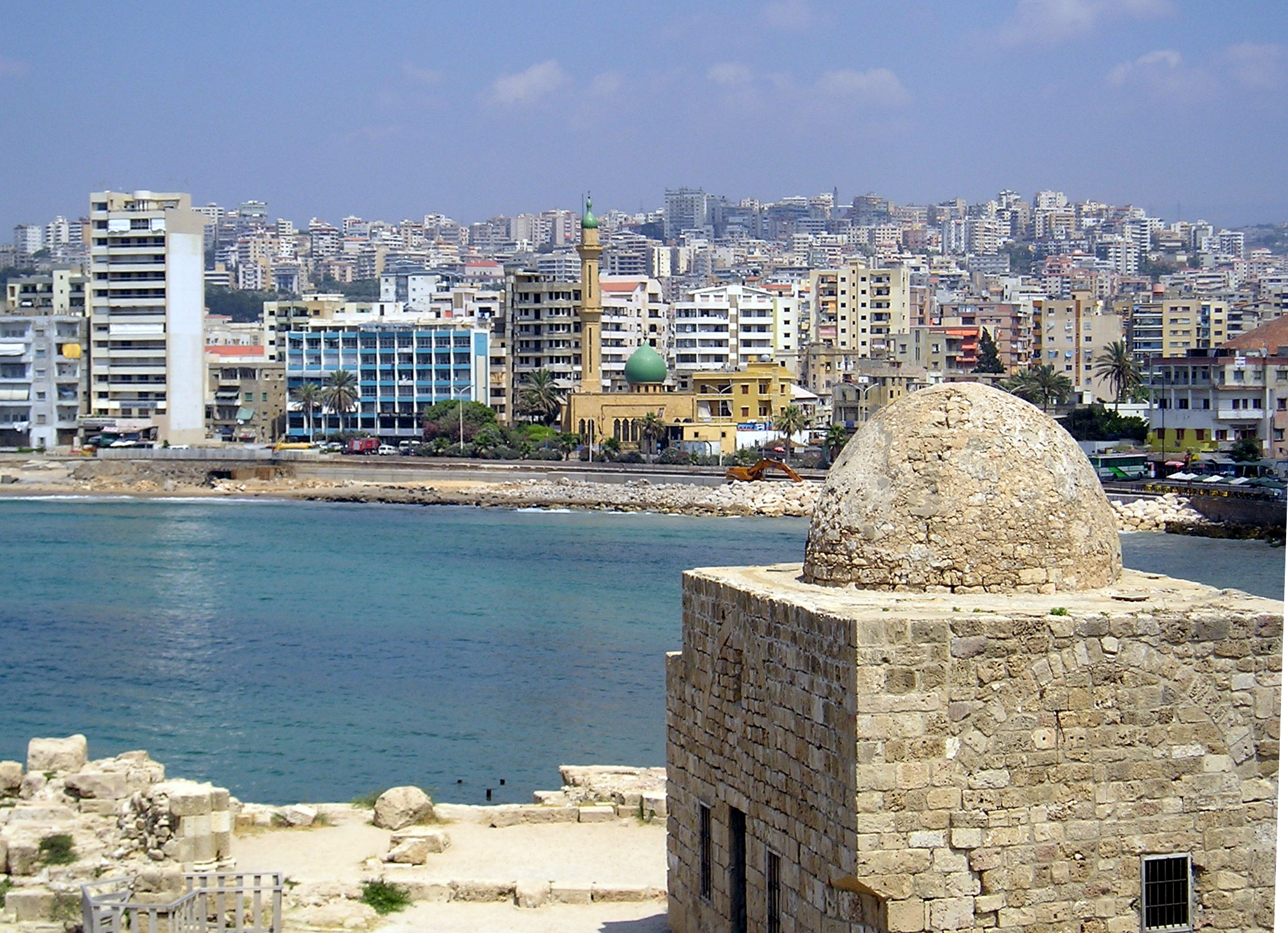 Sidon, Lebanon - view of the new part of the city from the Sea Castle. a part of theSea Castle in front.